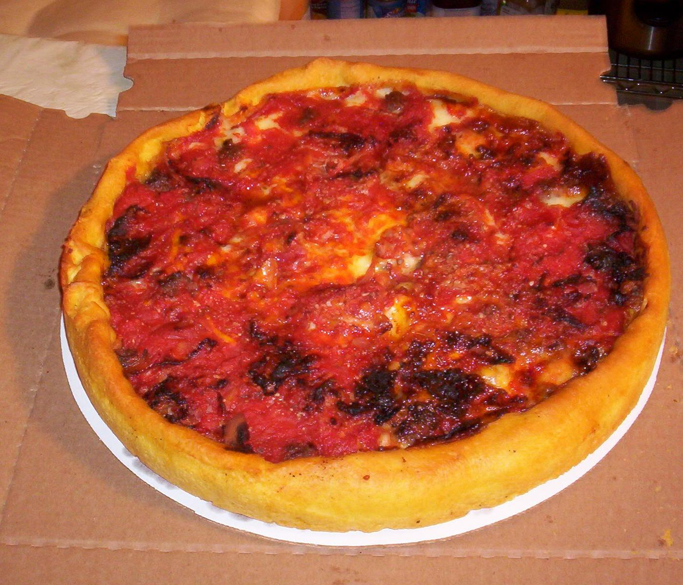 Created by me MysteriousMystery for use on Wikipedia. Picture is of traditional Chicago Style Deep Dish Pizza made by Gino's East Pizza of Chicago.